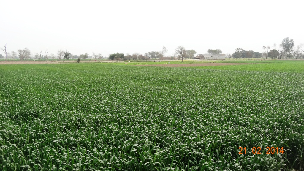 My taken